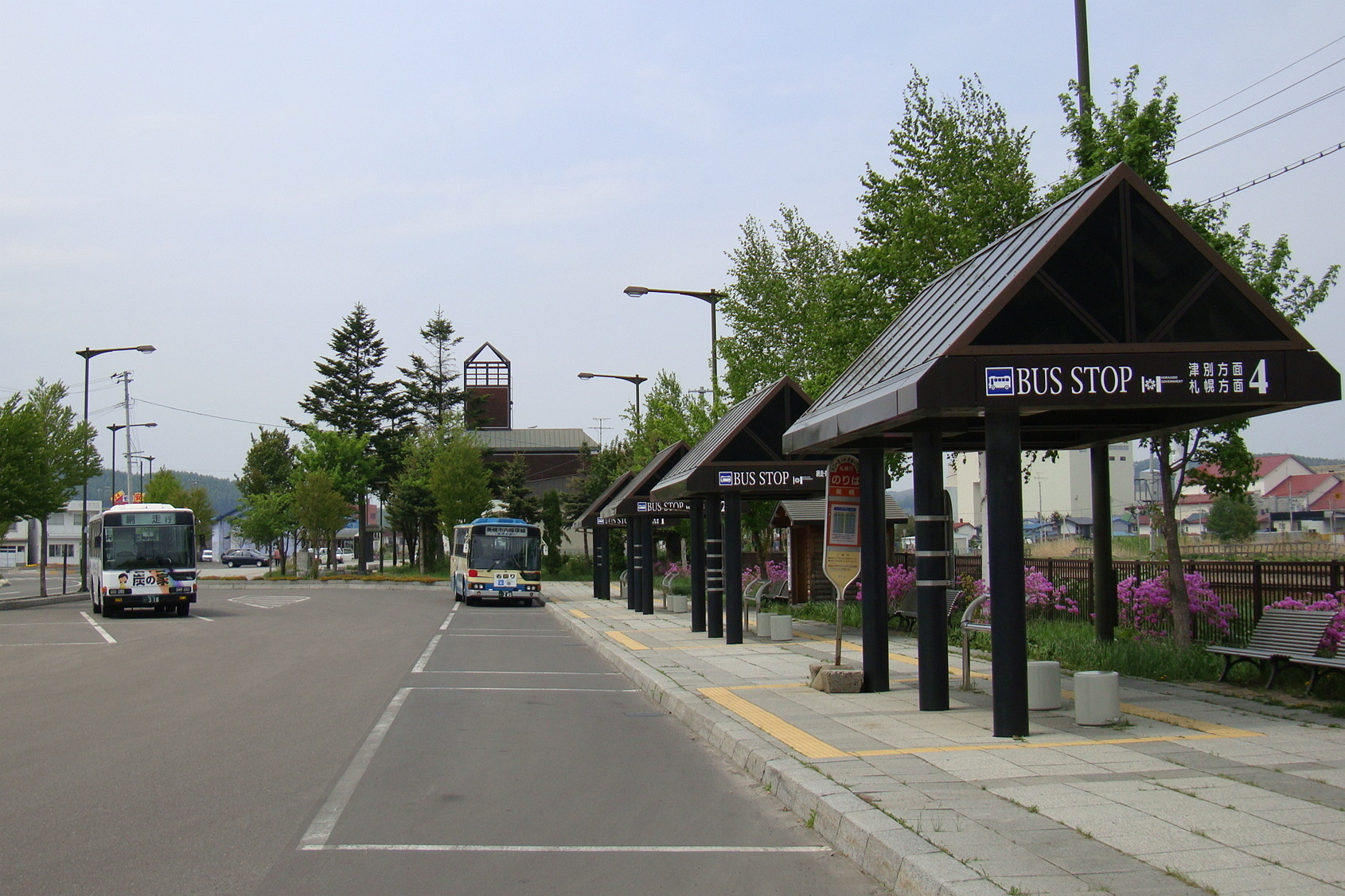 Bihoro Station Bus terminal